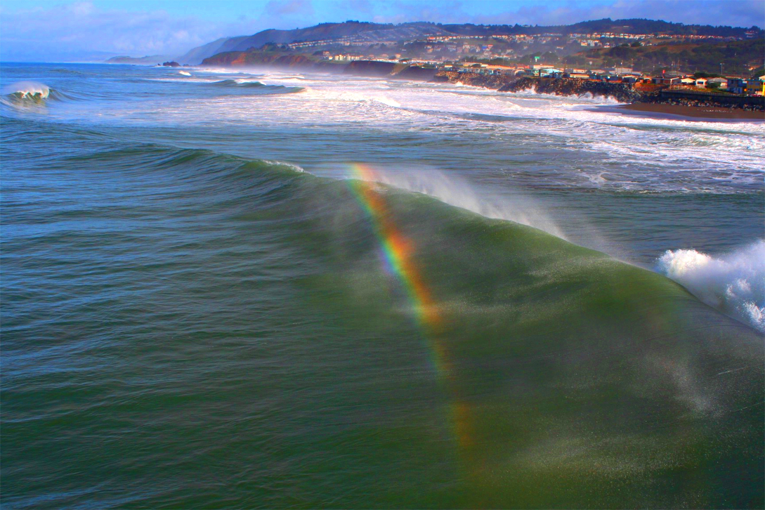 Surfing Rainbow